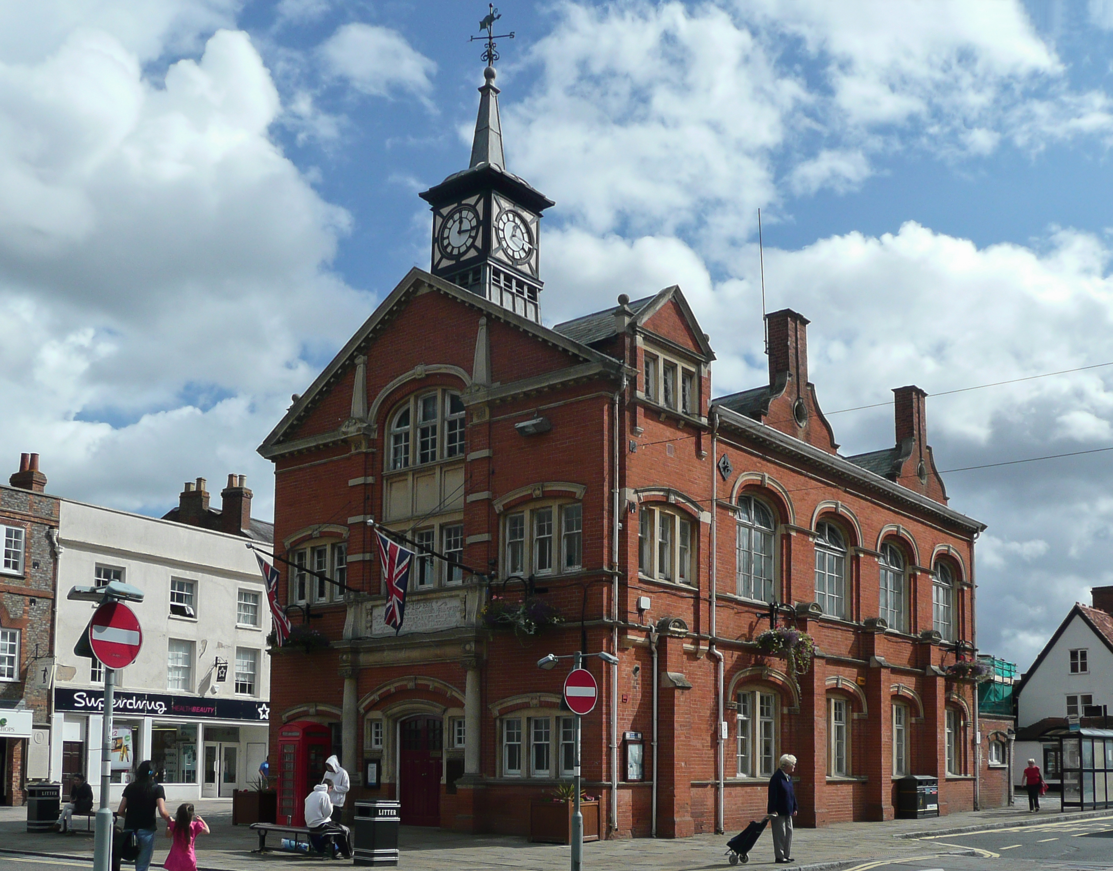 The Town Hall, High Street, Thame, Oxfordshire, seen from the west